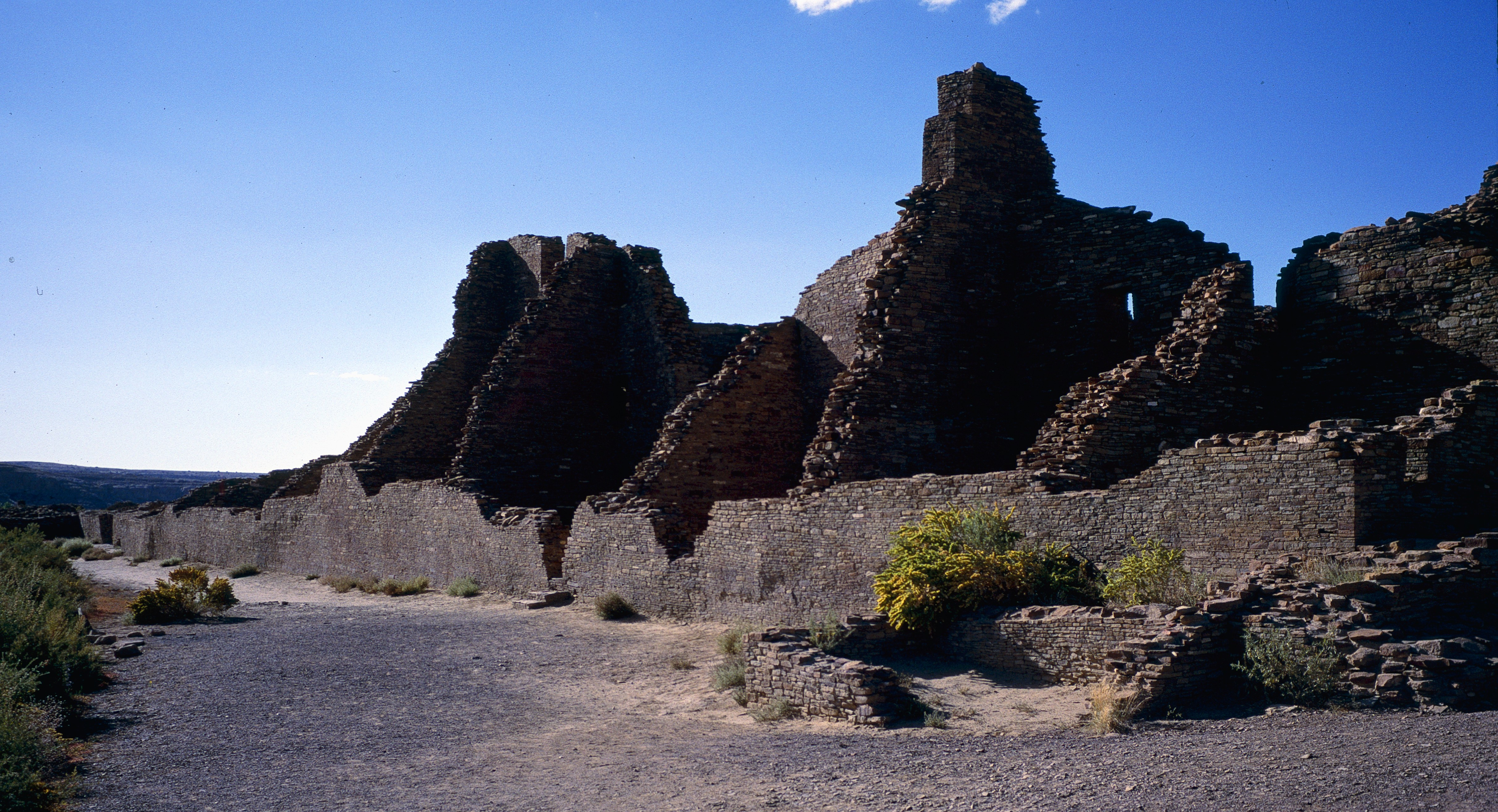 Pueblo Bonito, Chaco Canyon, New Mexico, U. S. A. (South wall)